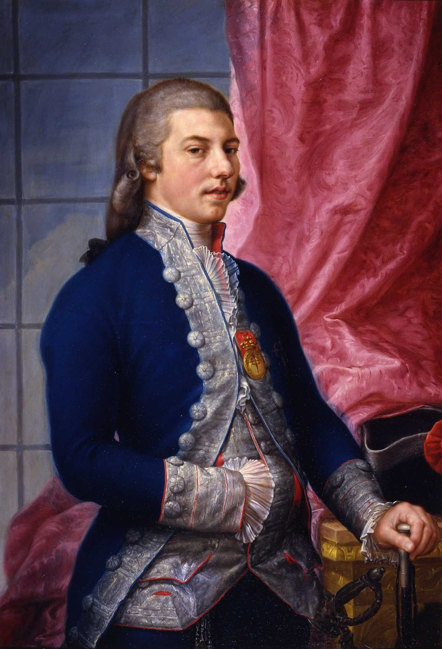 Portrait of Manuel Godoy (1767-1851)